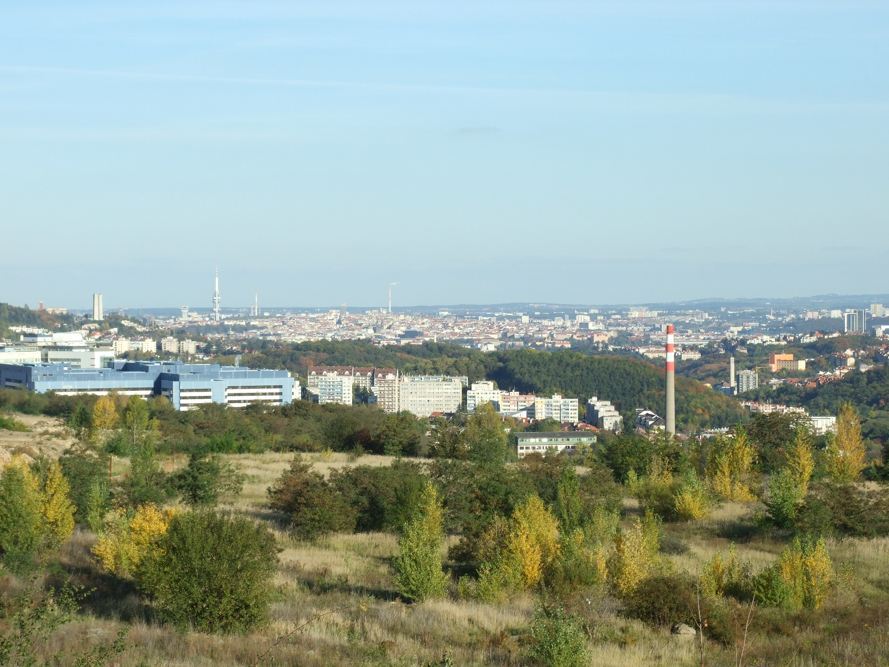 View on Prague from Řepy